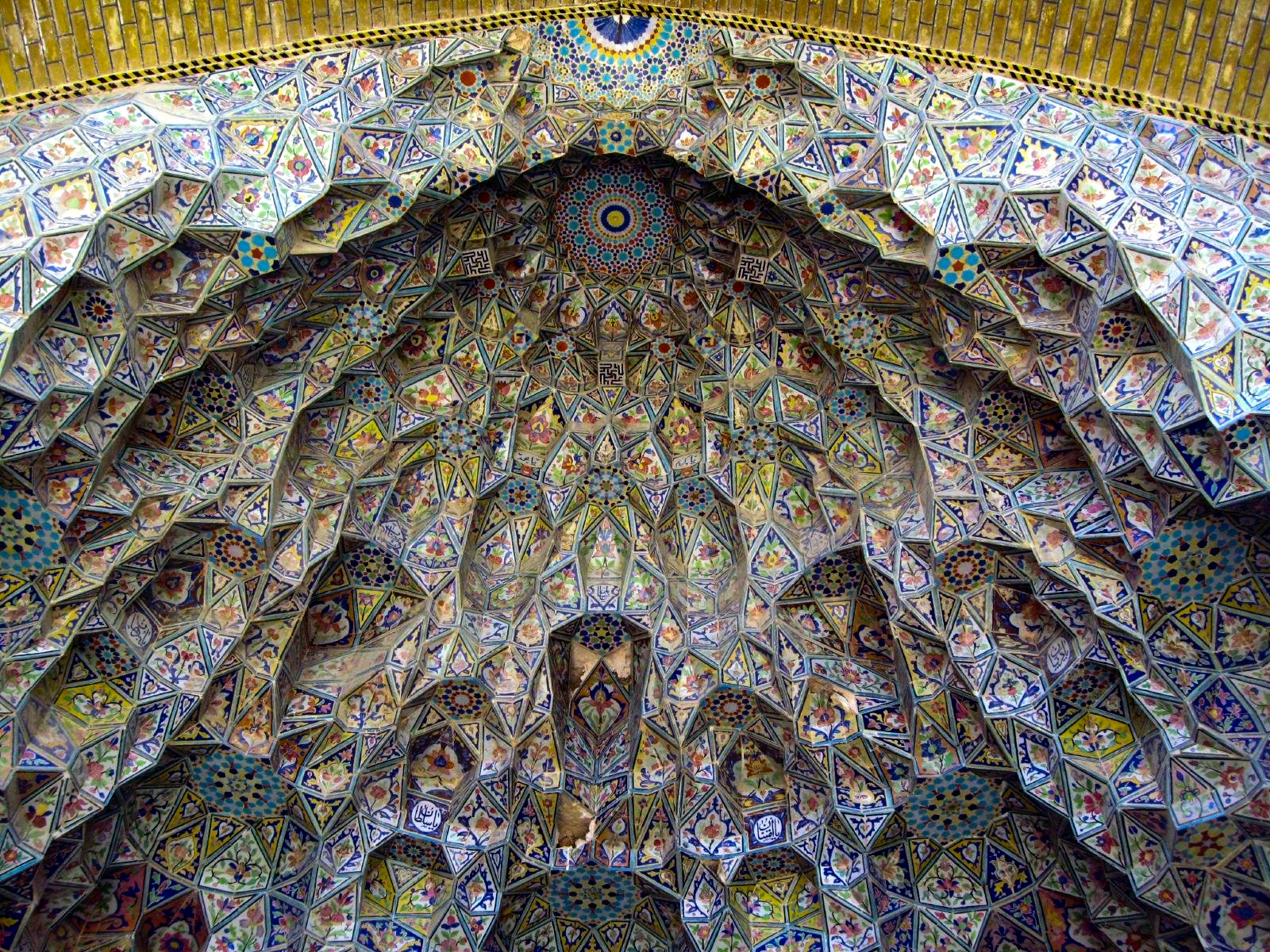 Jameh-ye Atigh Mosque, Shiraz, Iran